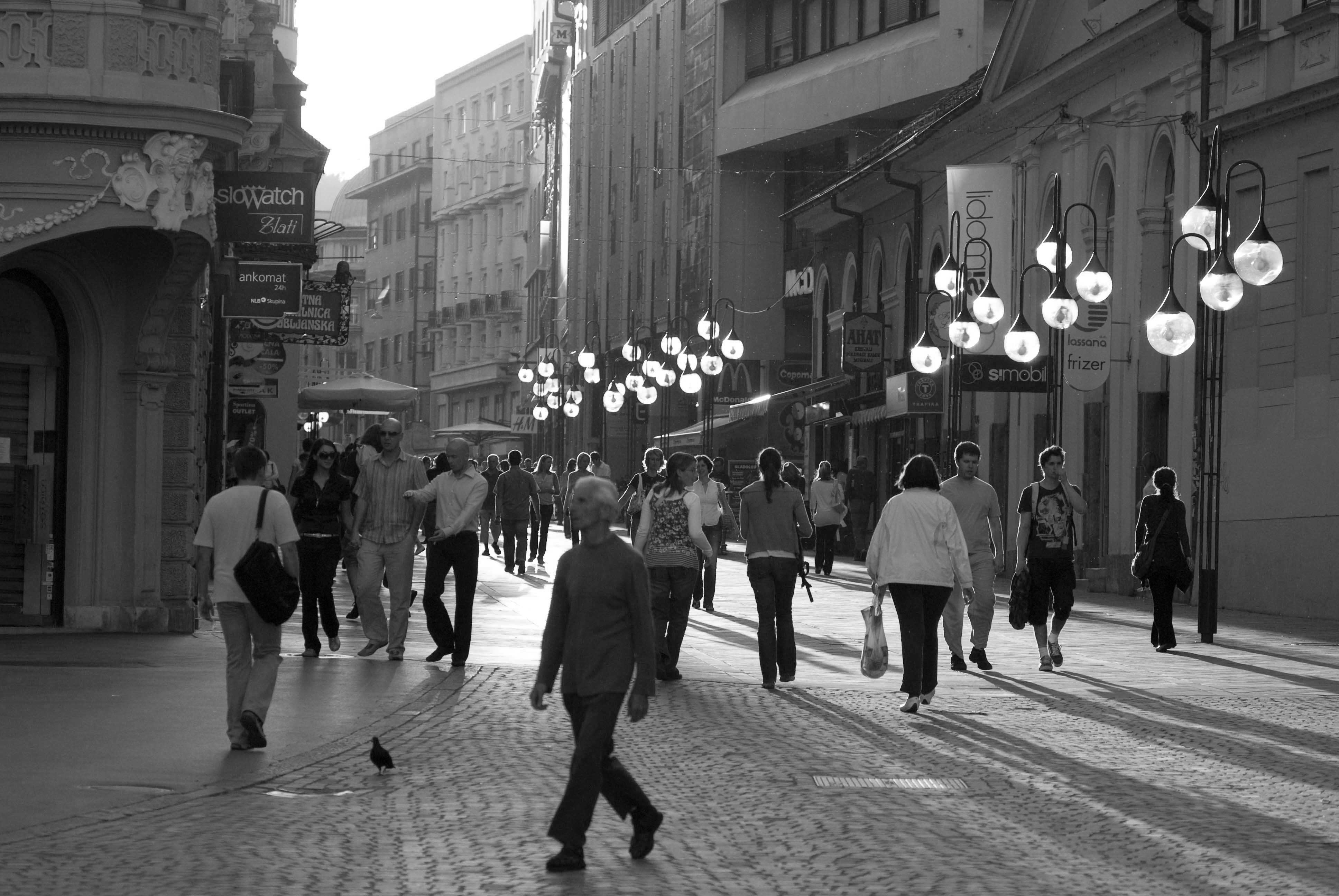 Čopova street in Ljubljana